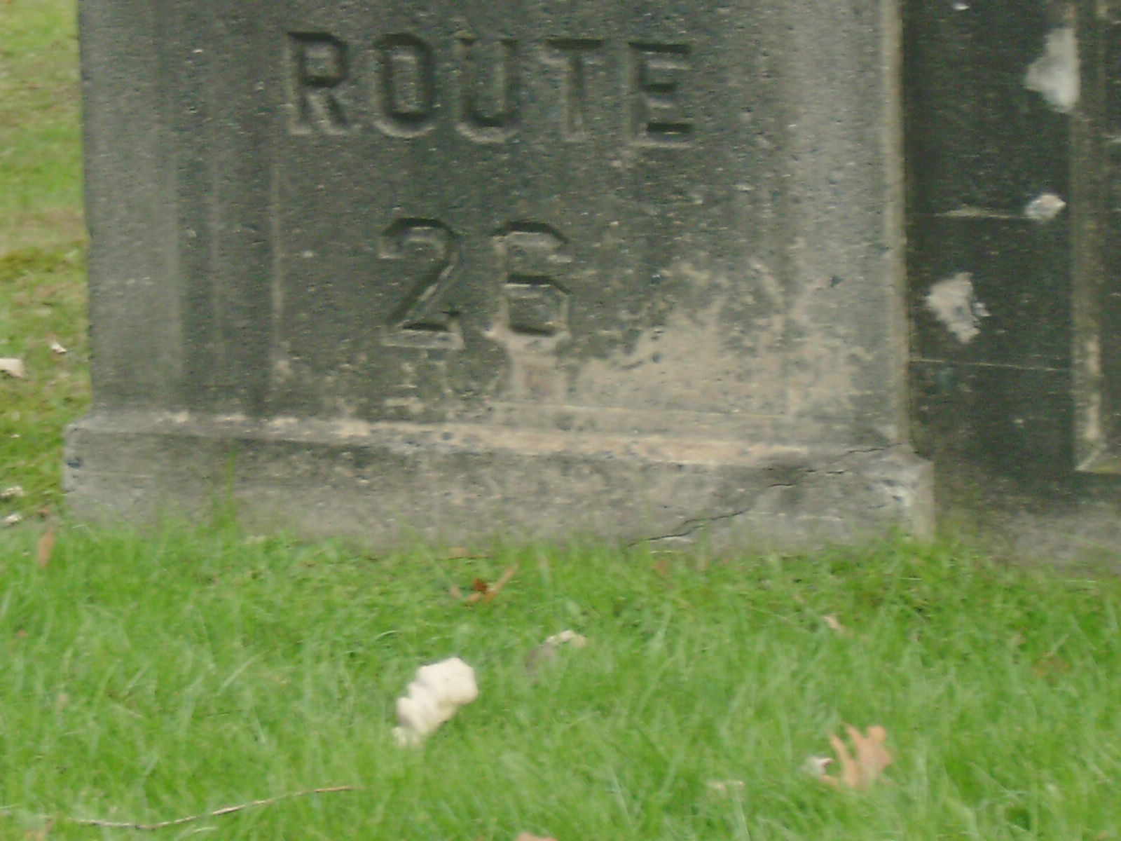 An indentation bridge stamp designating former State Highway Route 26 along U.S. Route 1 in Penns Neck, New Jersey.